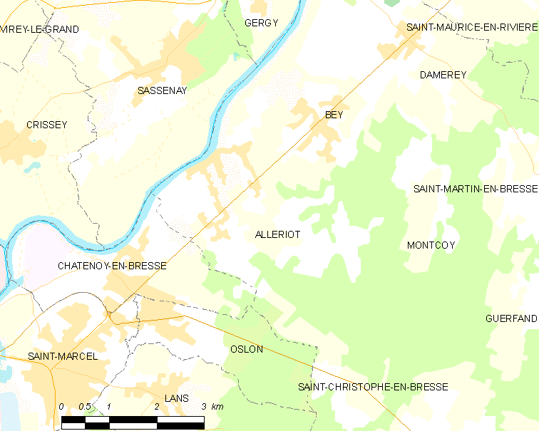 Map of French municipality